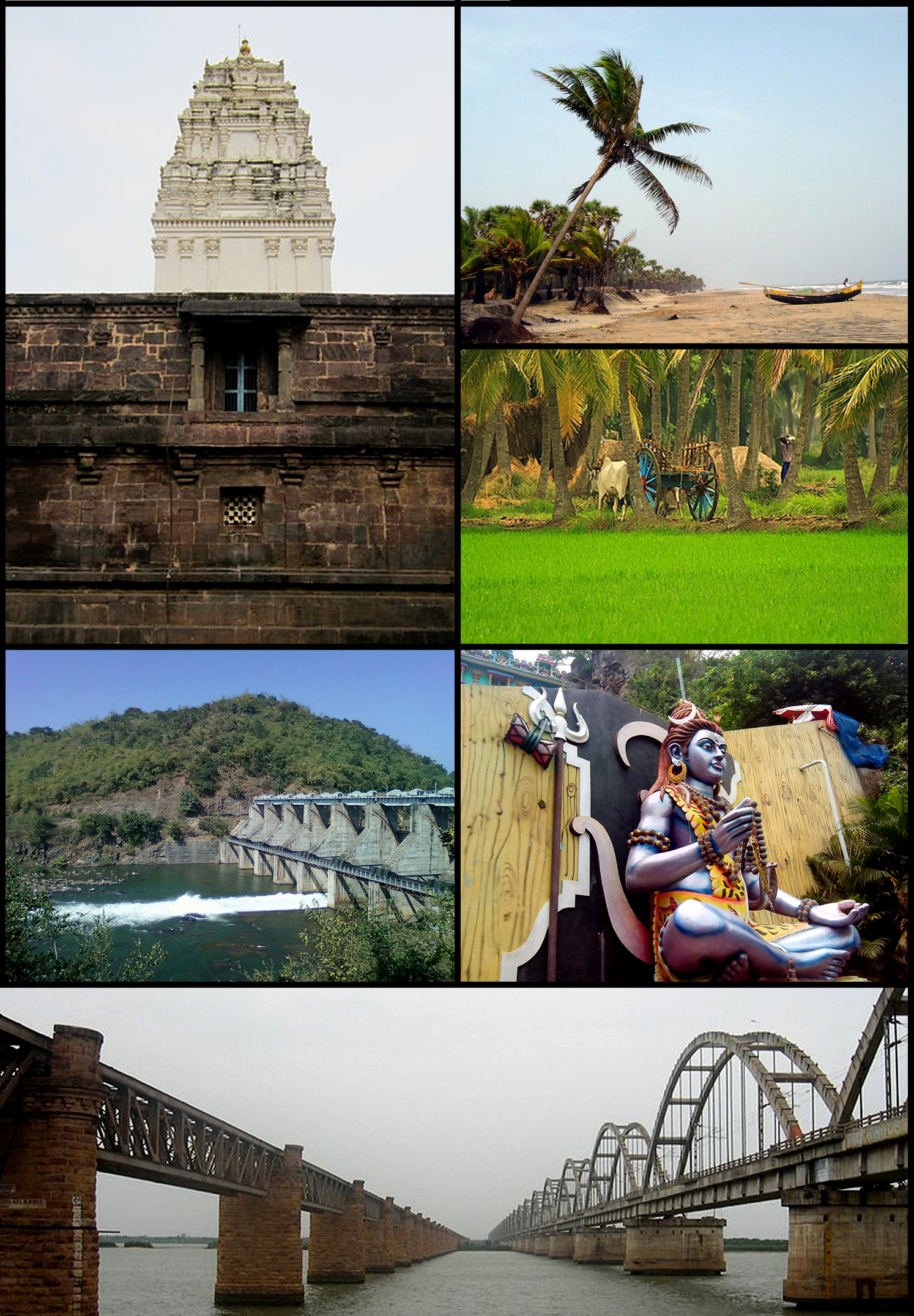 East Godavari district Montage